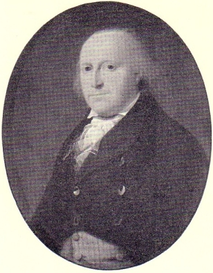 Adam Frederik Trampe (1750-1807), Danish Count, landowner, and theatre manager